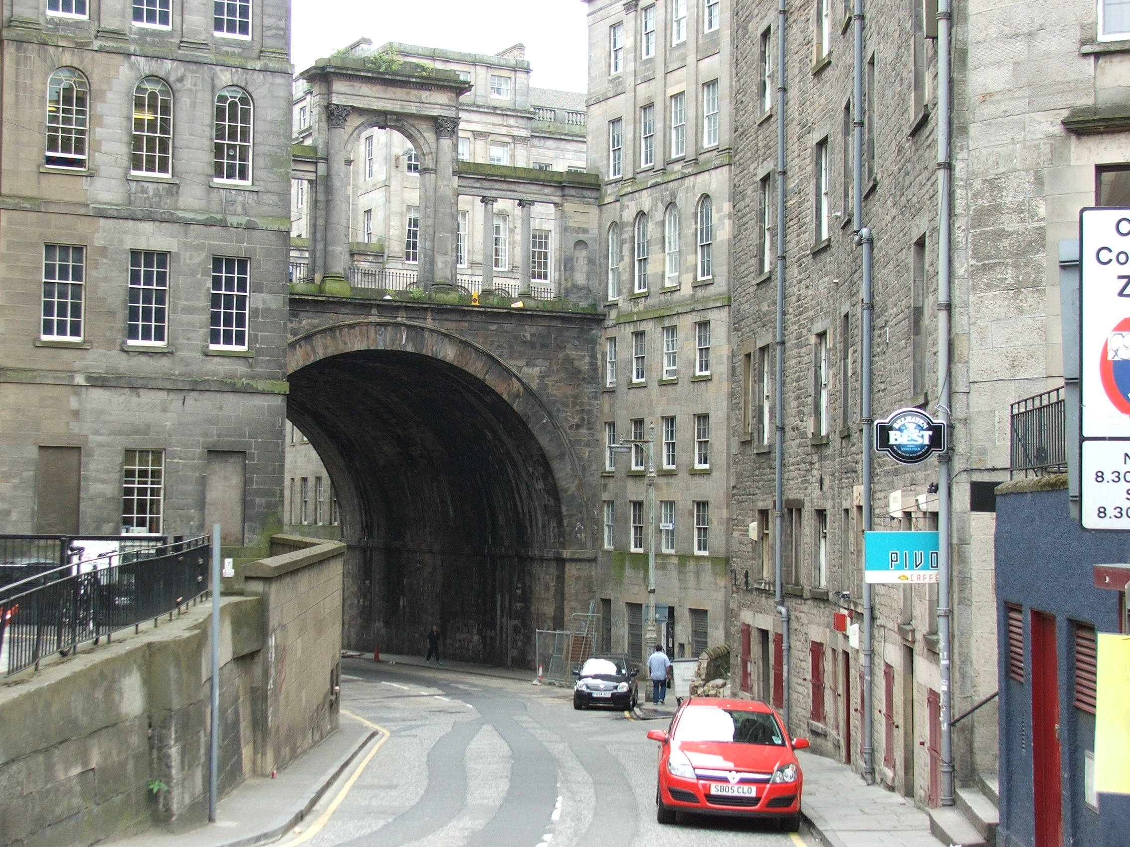 Calton Road Looking down Calton Road from Leith Street. The arch carries the A1 (Regent Street) eastwards out of the city.